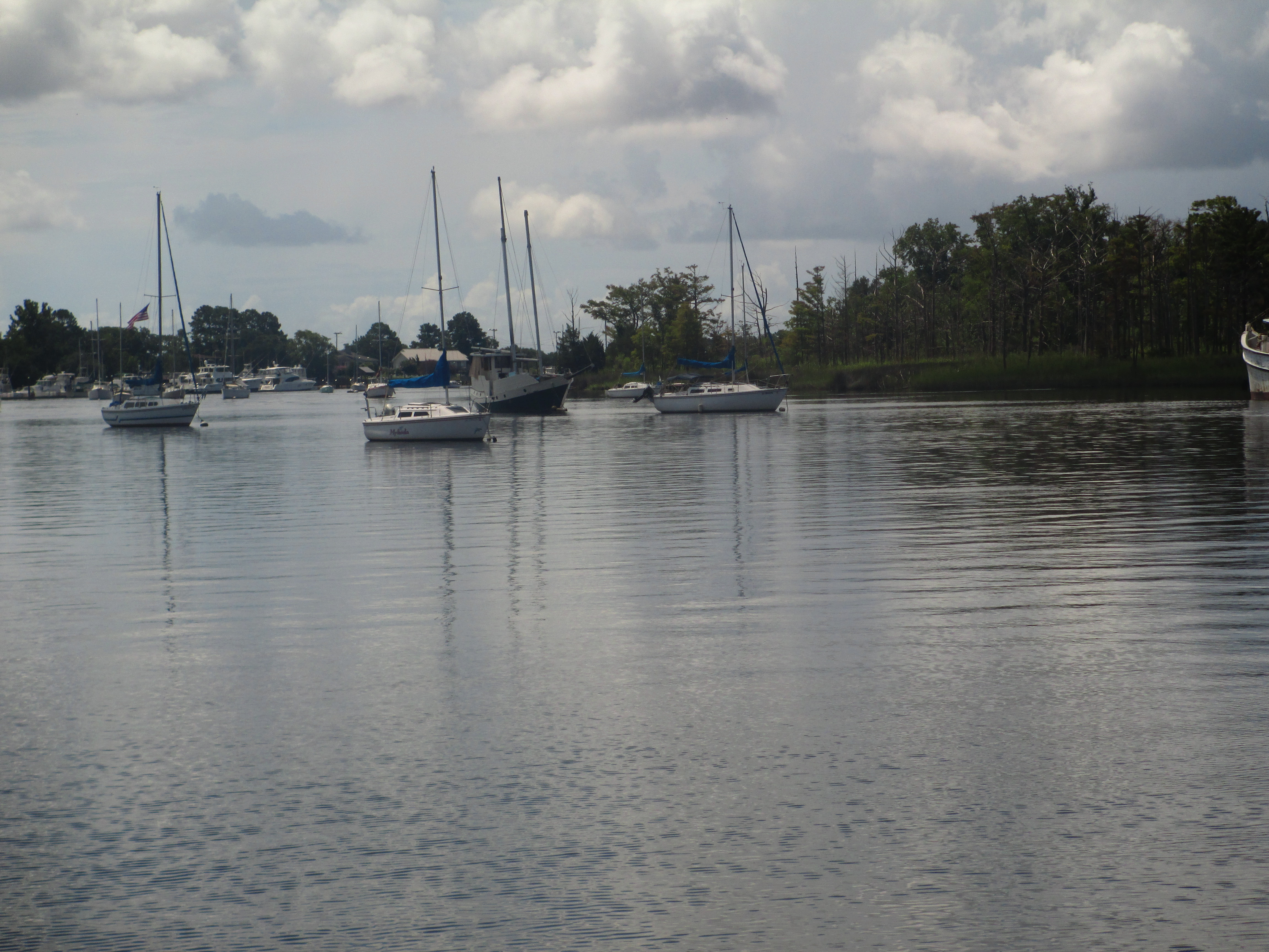 I took photo with Canon camera in Georgetown, SC.